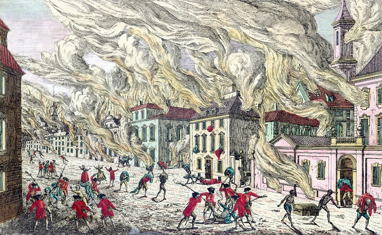 Artist's depiction of the Great Fire of New York on September 19, 1776